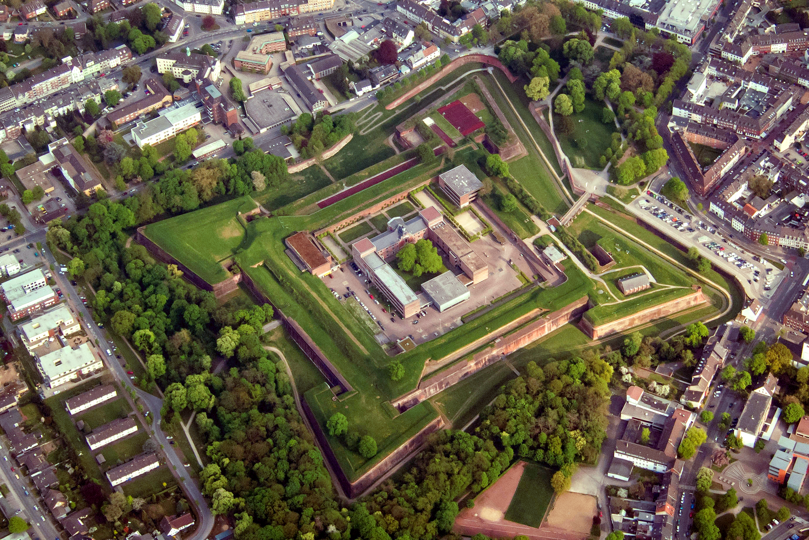 Zitadelle Jülich